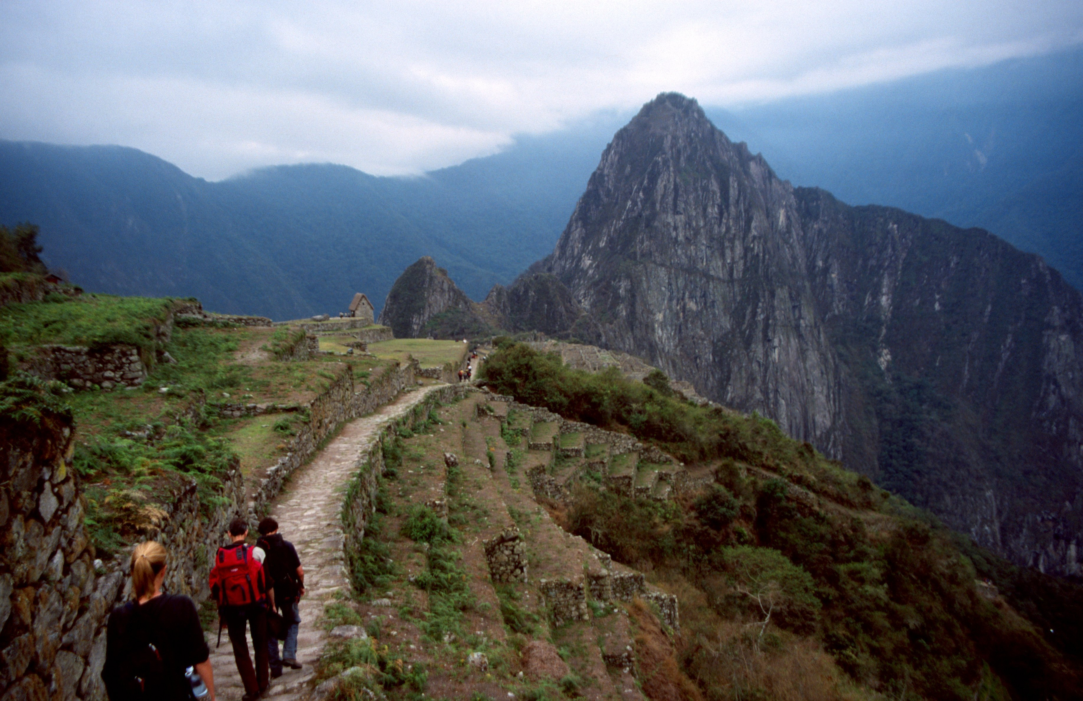 Inca trail from Cusco to Machu Picchu in Perú. Day 4. Descent to Machu Picchu from Inti Punku.